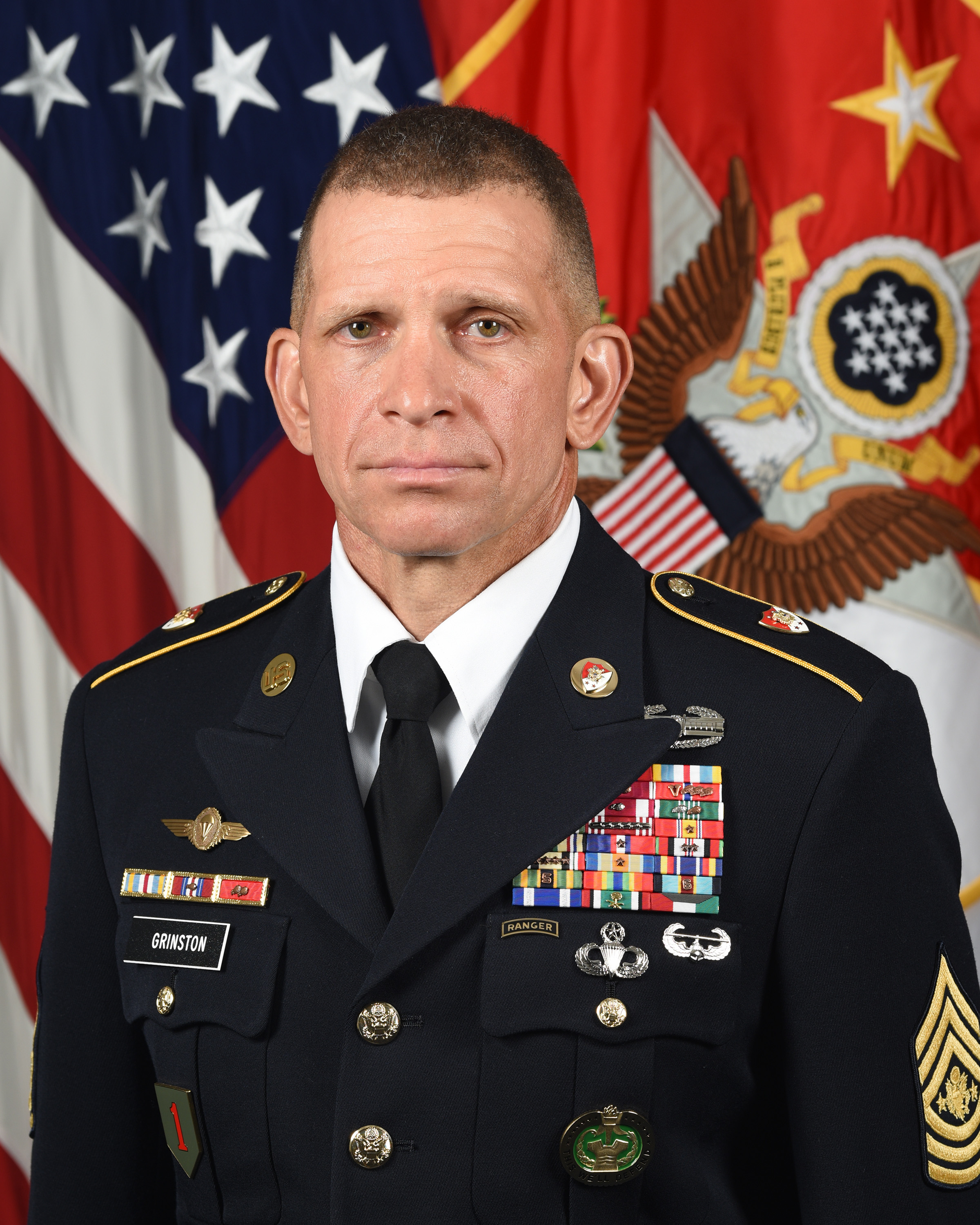 U.S. Army Command Sgt. Maj. Michael A. Grinston 16th Sergeant Major of the Army, poses for his official portrait in the Army portrait studio at the Pentagon in Arlington, Va, Aug. 12, 2019. (U.S. Army photo by William Pratt)